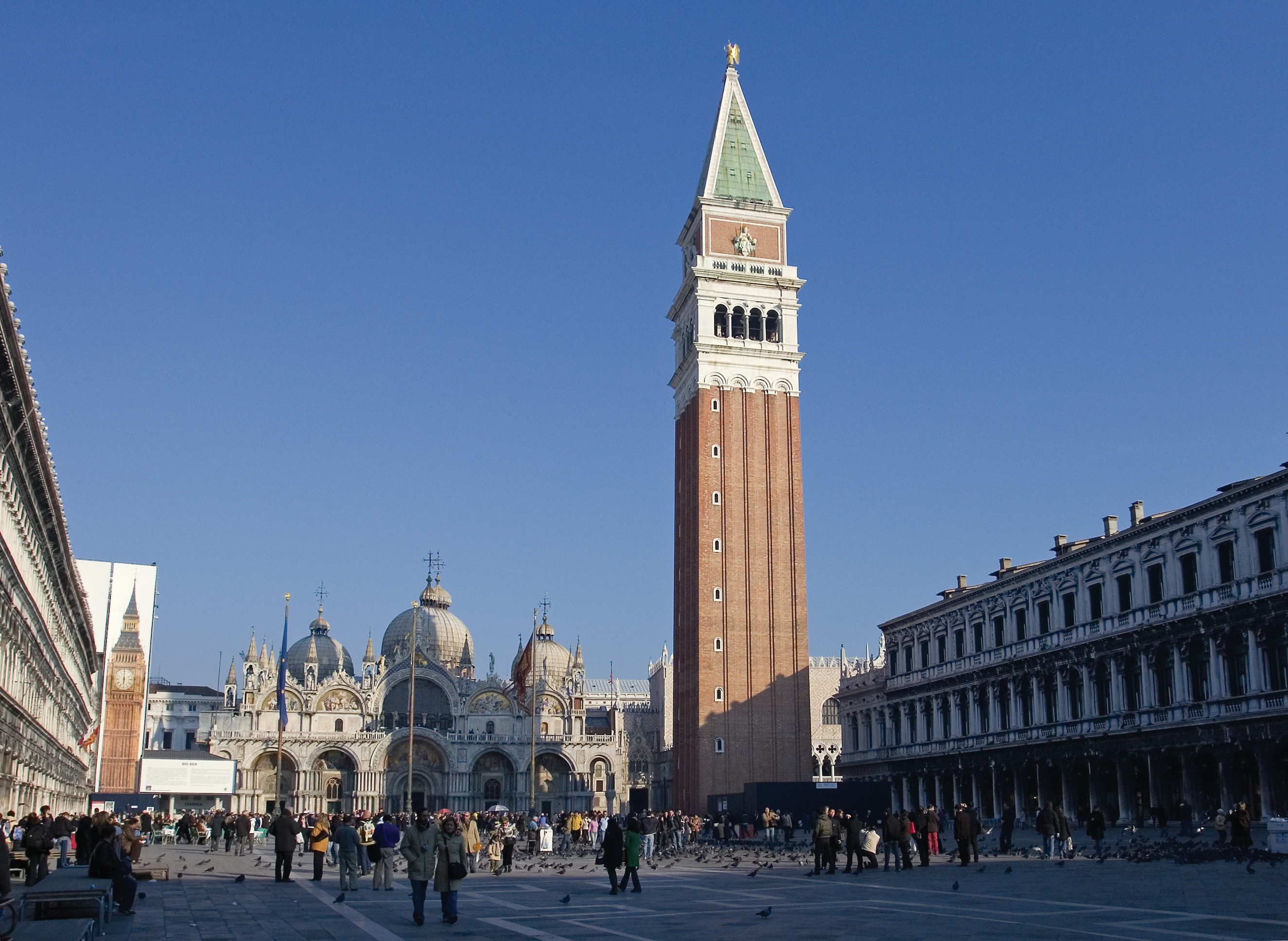 St Mark's Square / Venice, Italy